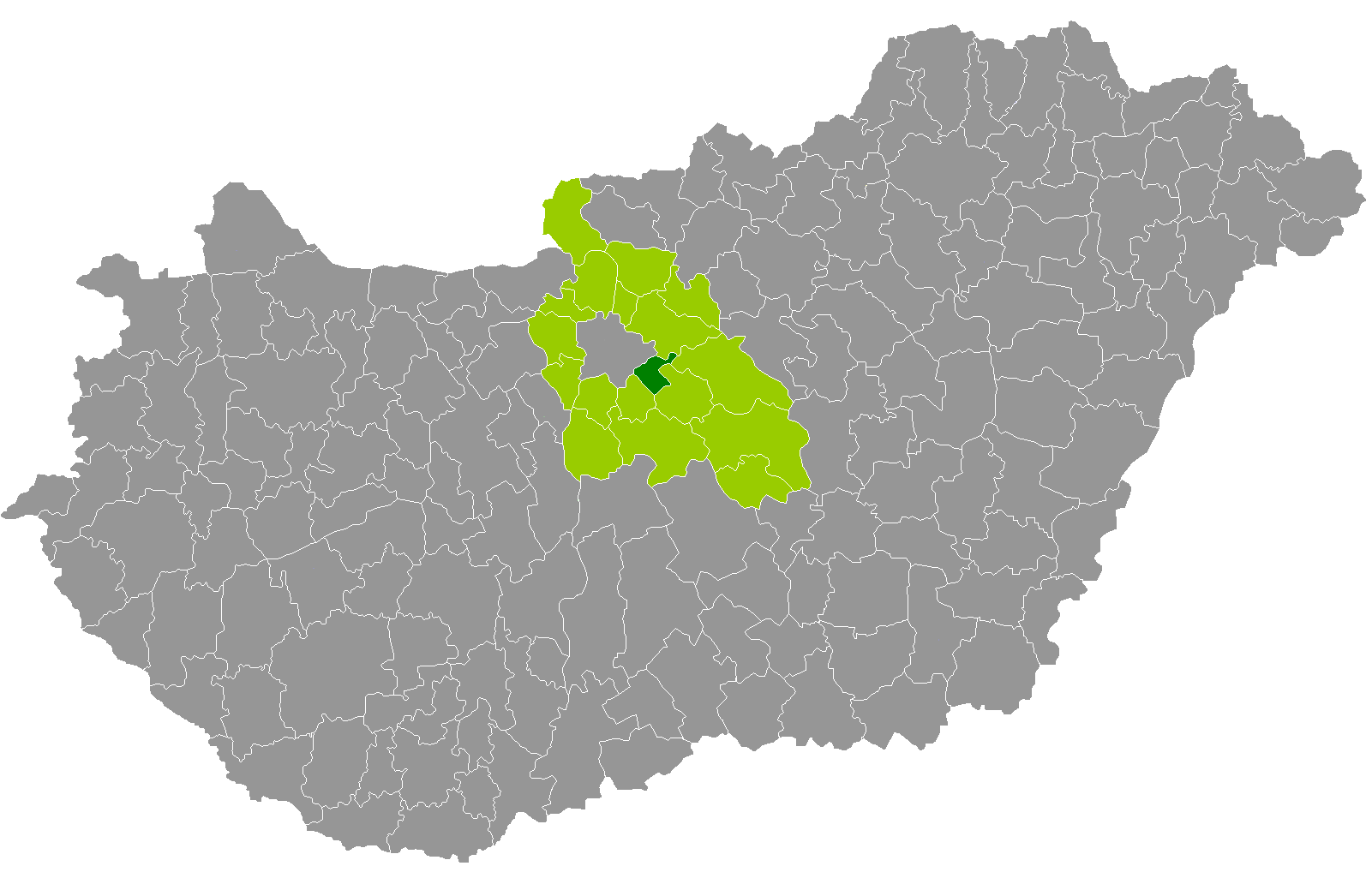 Location of Vecsés District, Pest, Hungary